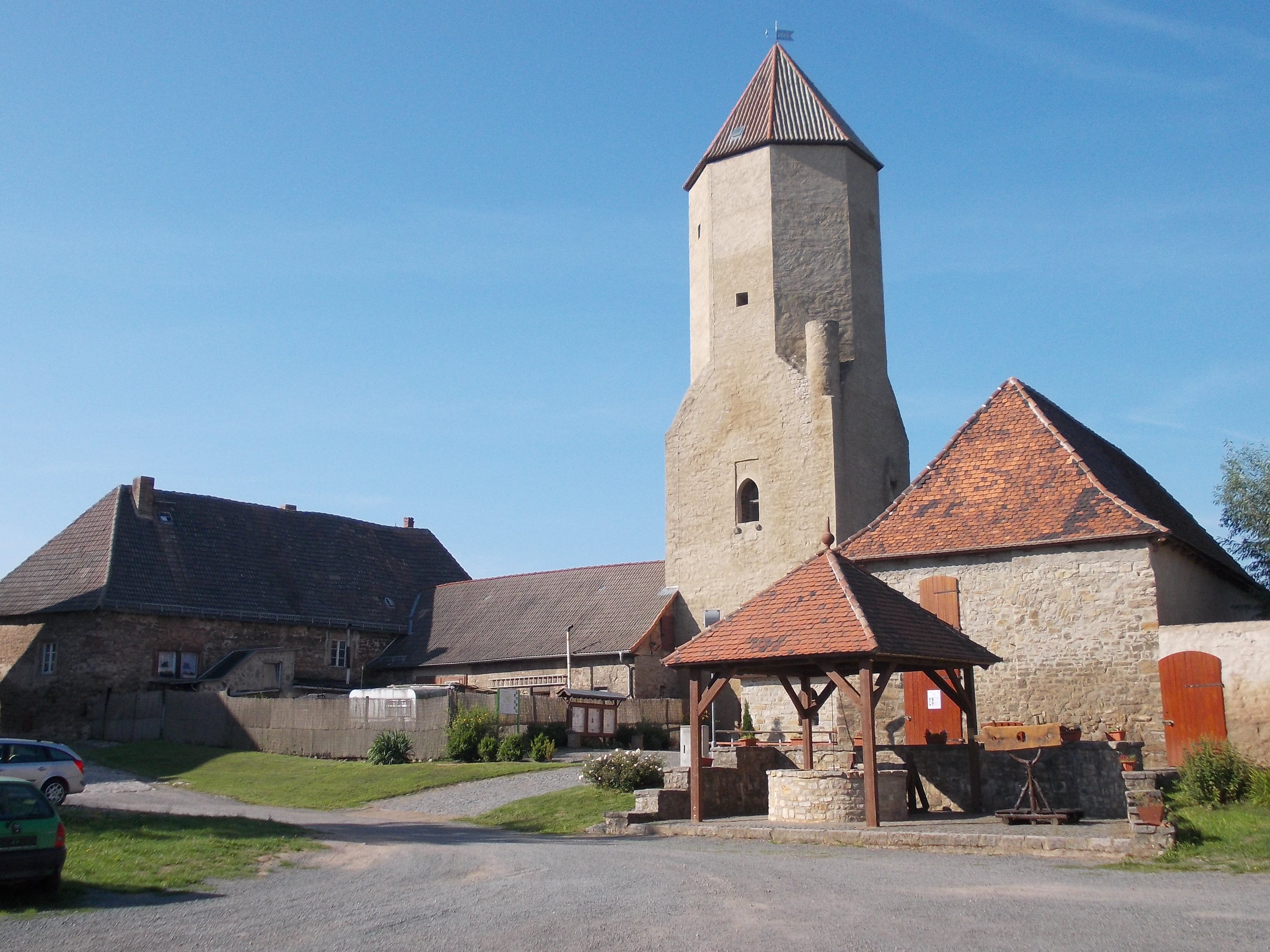 Freckleben castle (Aschersleben, district: Salzlandkreis, Saxony-Anhalt)